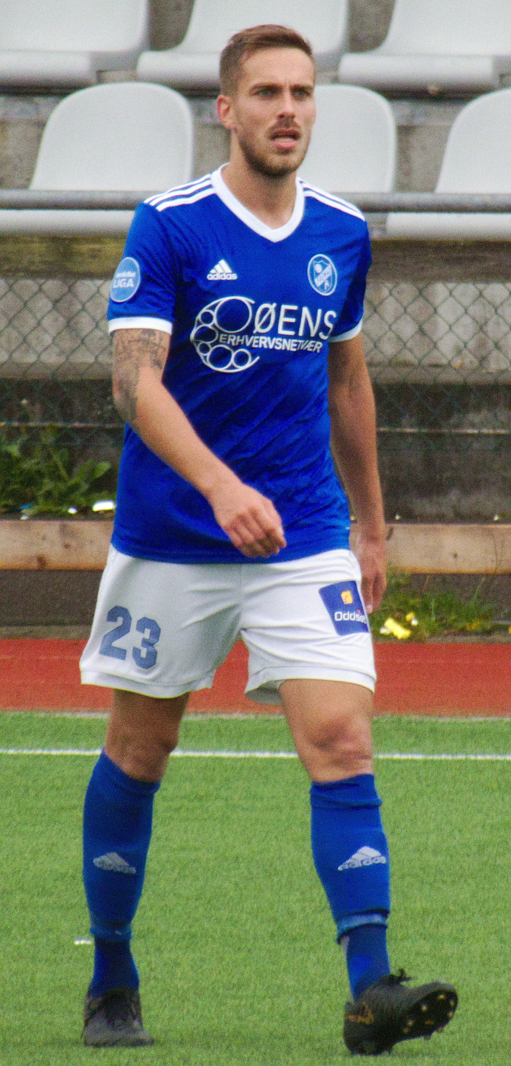 BK Fremad Amager defender Heini Vatnsdal during a match.